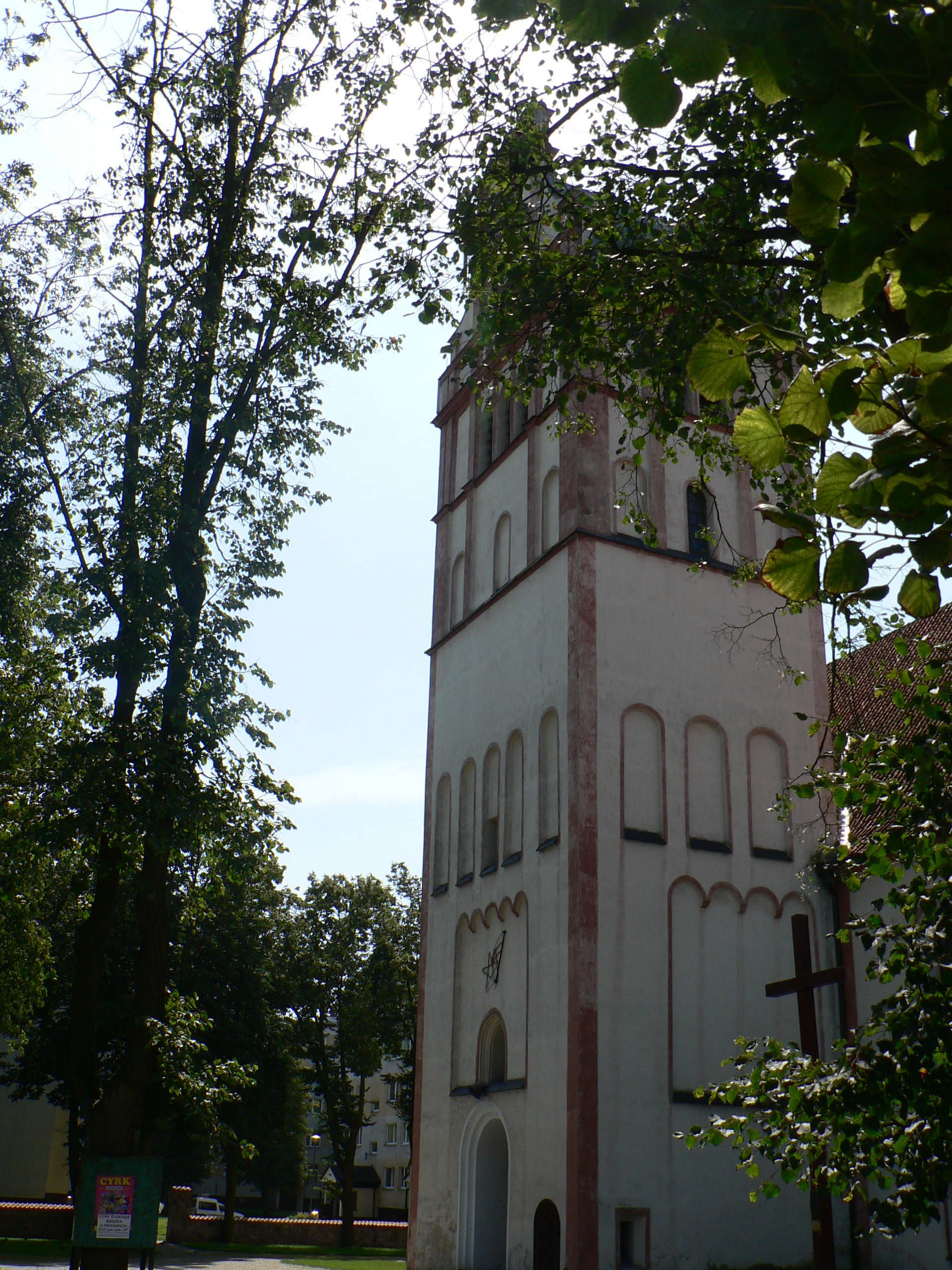 Adalbert of Prague church in Nidzica